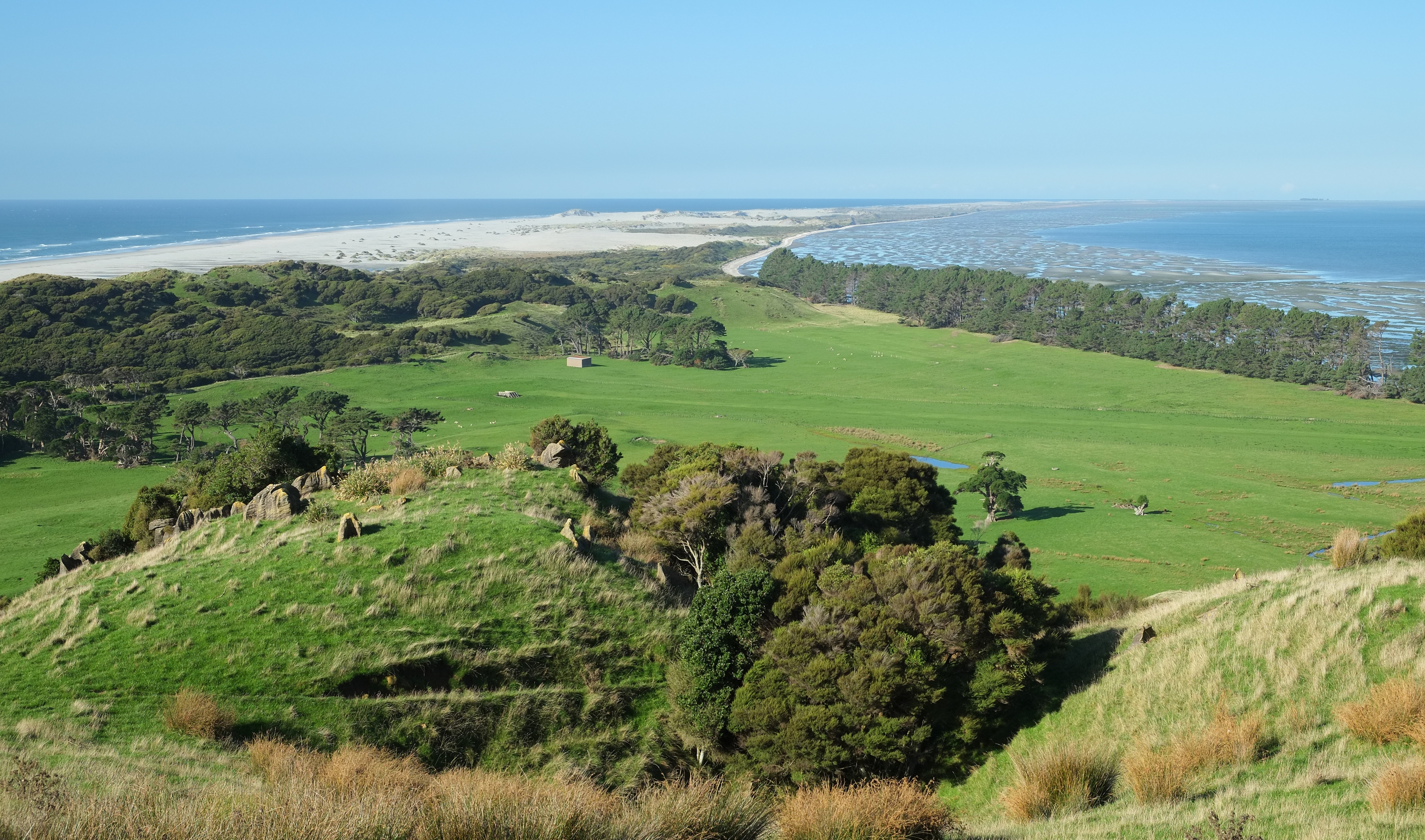 Farewell Spit overview from hills near Puponga